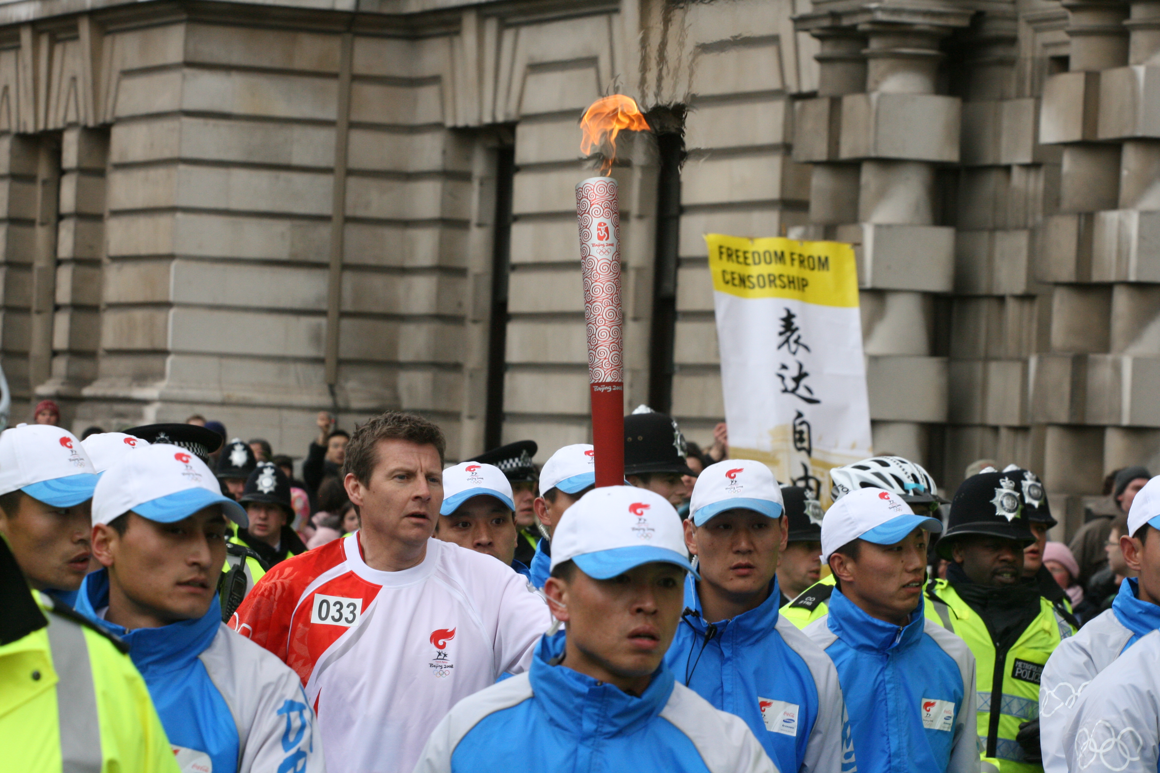 Olympic Torch for the 2008 Summer Olympics passes along Whitehall in London. The torch bearer is Steve Cram.